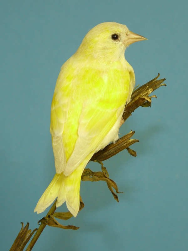 siskin - new mutation